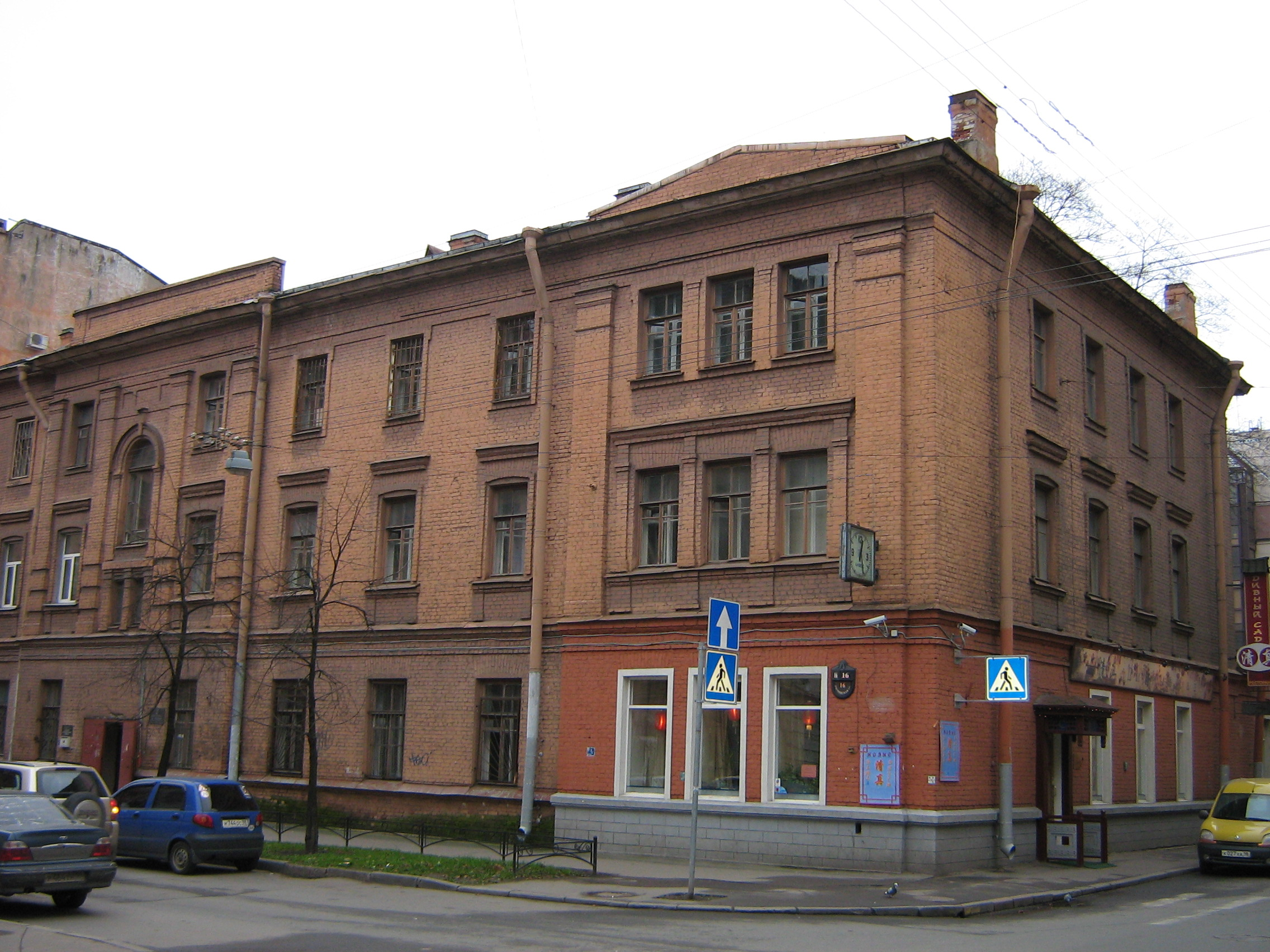 Gatchinsraya st., 16 / Malyi Prospekt (Small Av.) of Petrograd side, 53 (Saint-Petersburg, Russia). Architect S. I. Andreev, 1898; reconstructed in the 20th century.